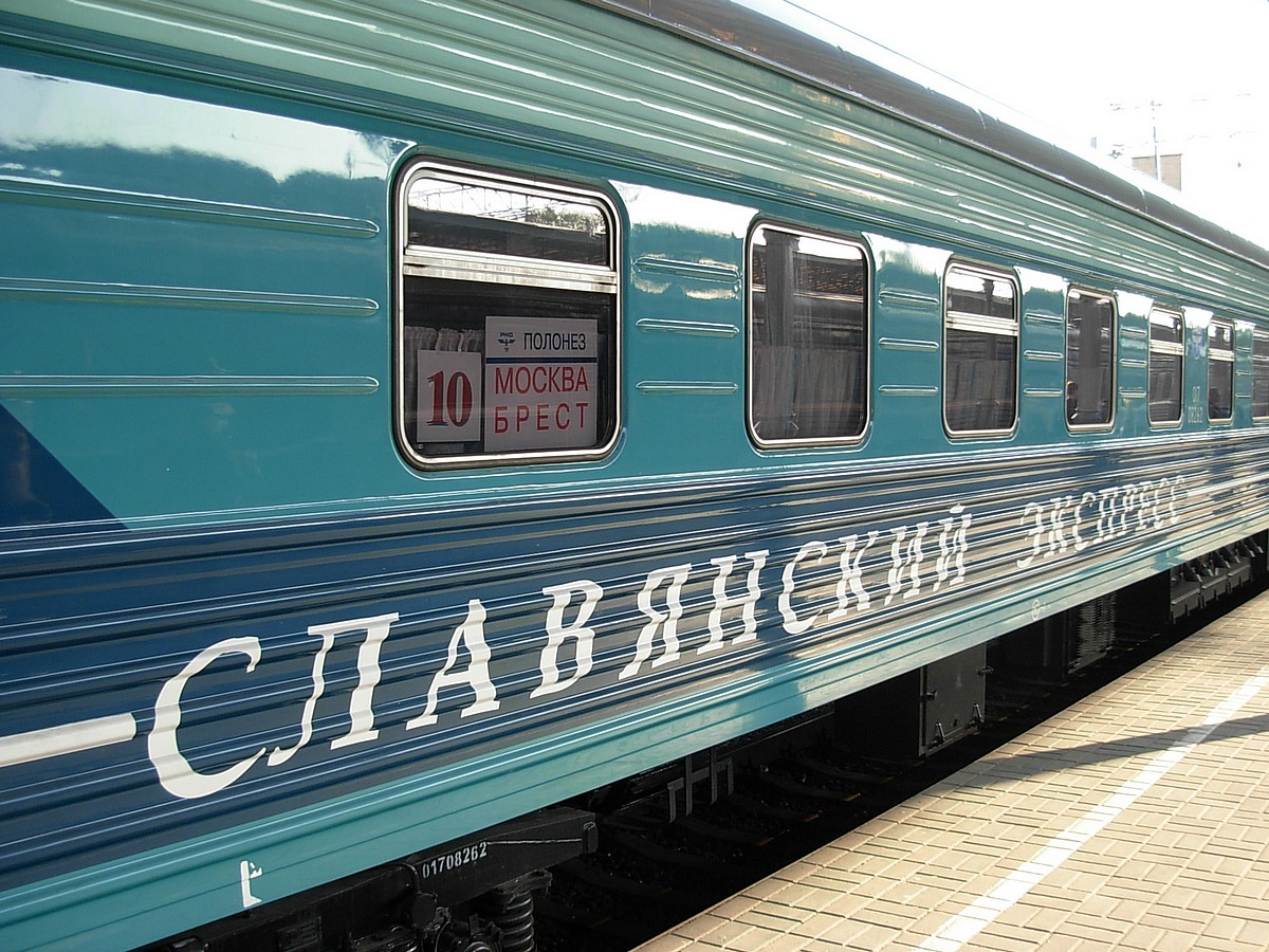 "Polonez" train from Moscow to Warsaw departing Beloruskij Vokazal. Carriage from the Moscow-Minsk "Slavic Express" train.